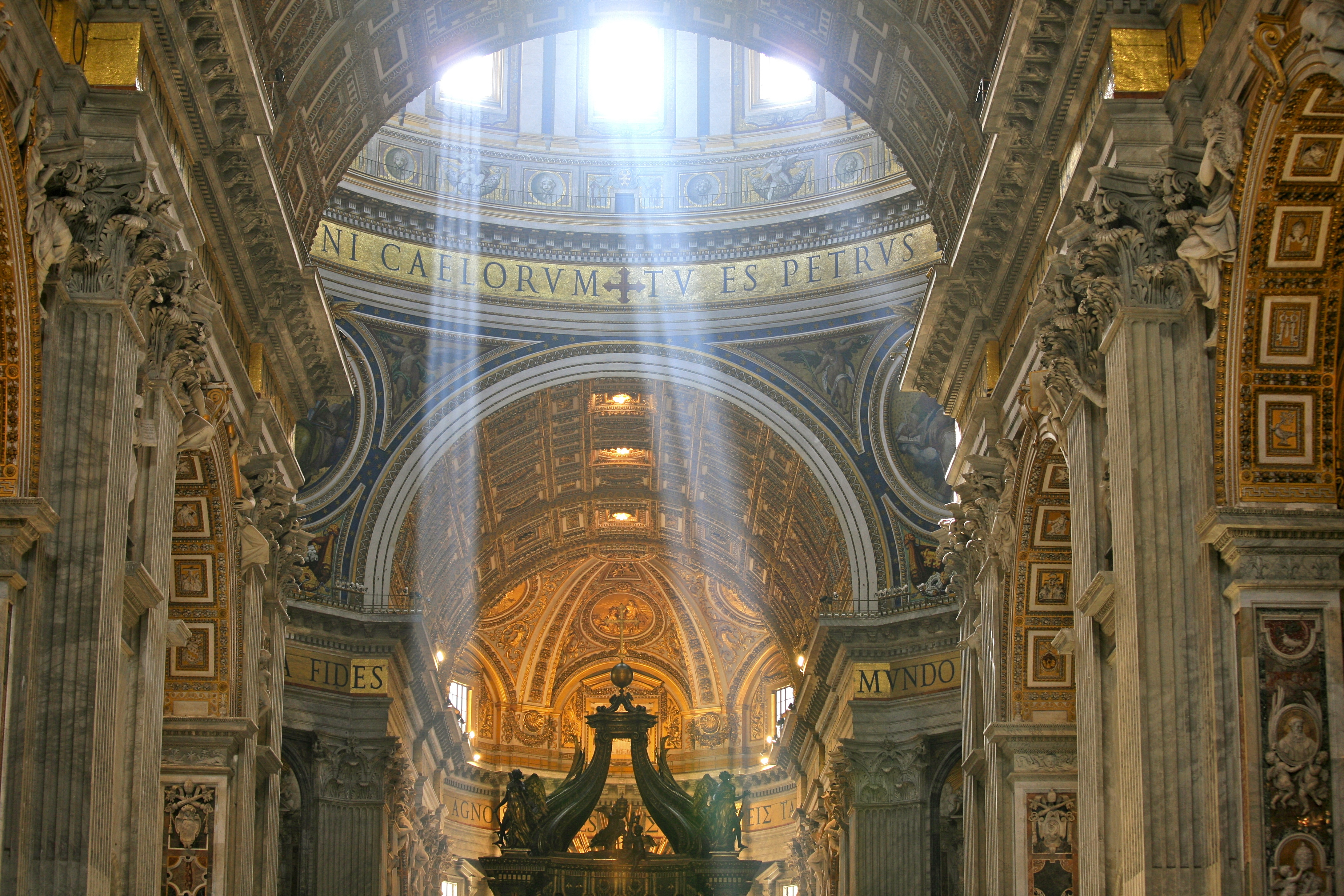 Crepuscular Rays at Noon in Saint Peter's Basilica, Vatican City